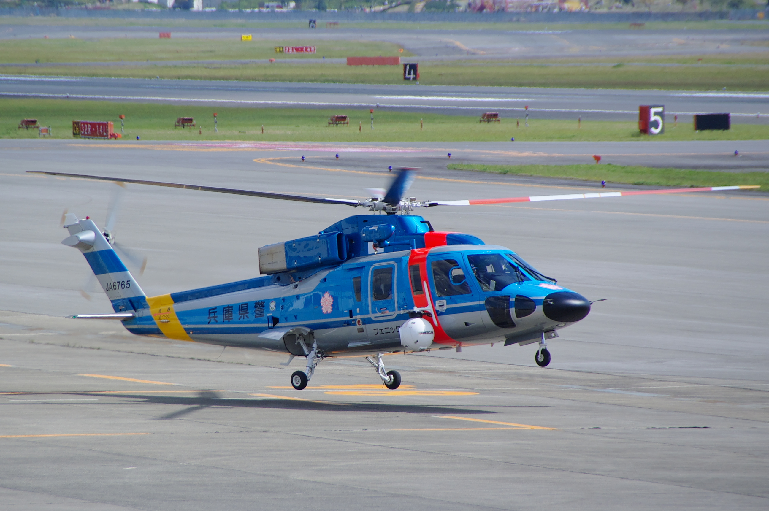 Photograph of Hyogo Prefectural Police's Sikorsky S-76B (JA6765, Phoenix), taking off from Osaka International Airport in Itami, Hyogo Prefecture, Japan.